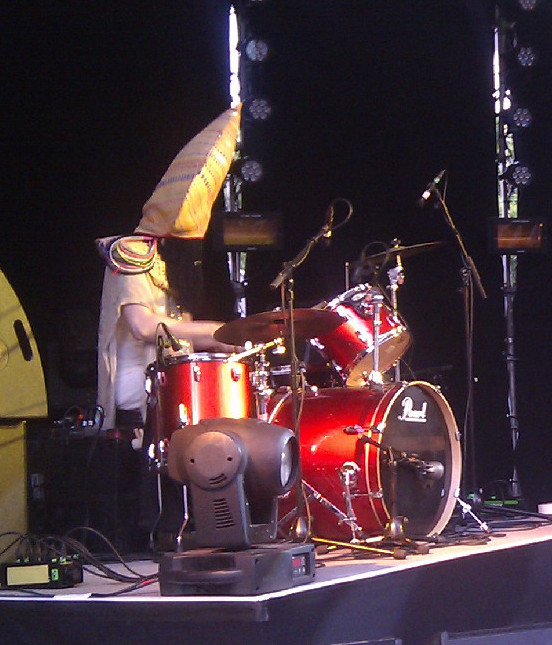 Marcel Blatti aka Lleluja-Ha from "Oy" at Pfingsttheatron 2013, Munich, Germany